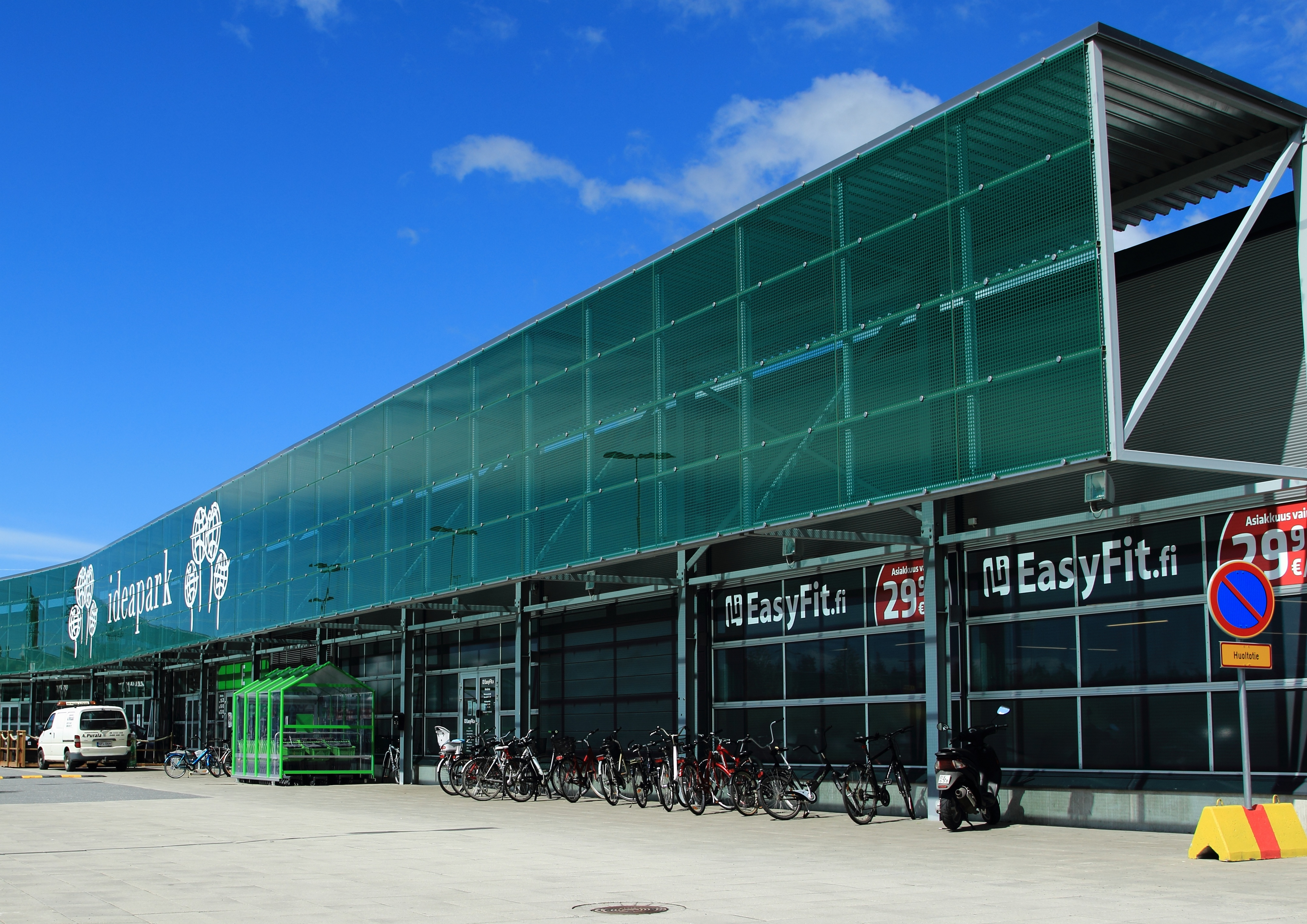 Ideapark in Oulu.